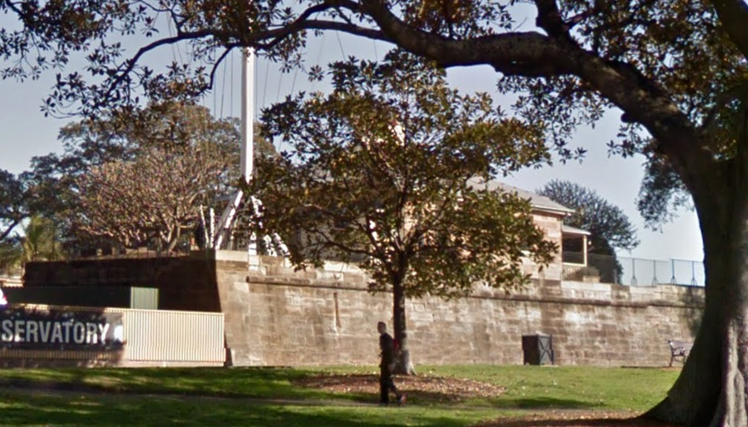 Remains of Fort Phillip under the Signal Station, Observatory Hill, Sydney